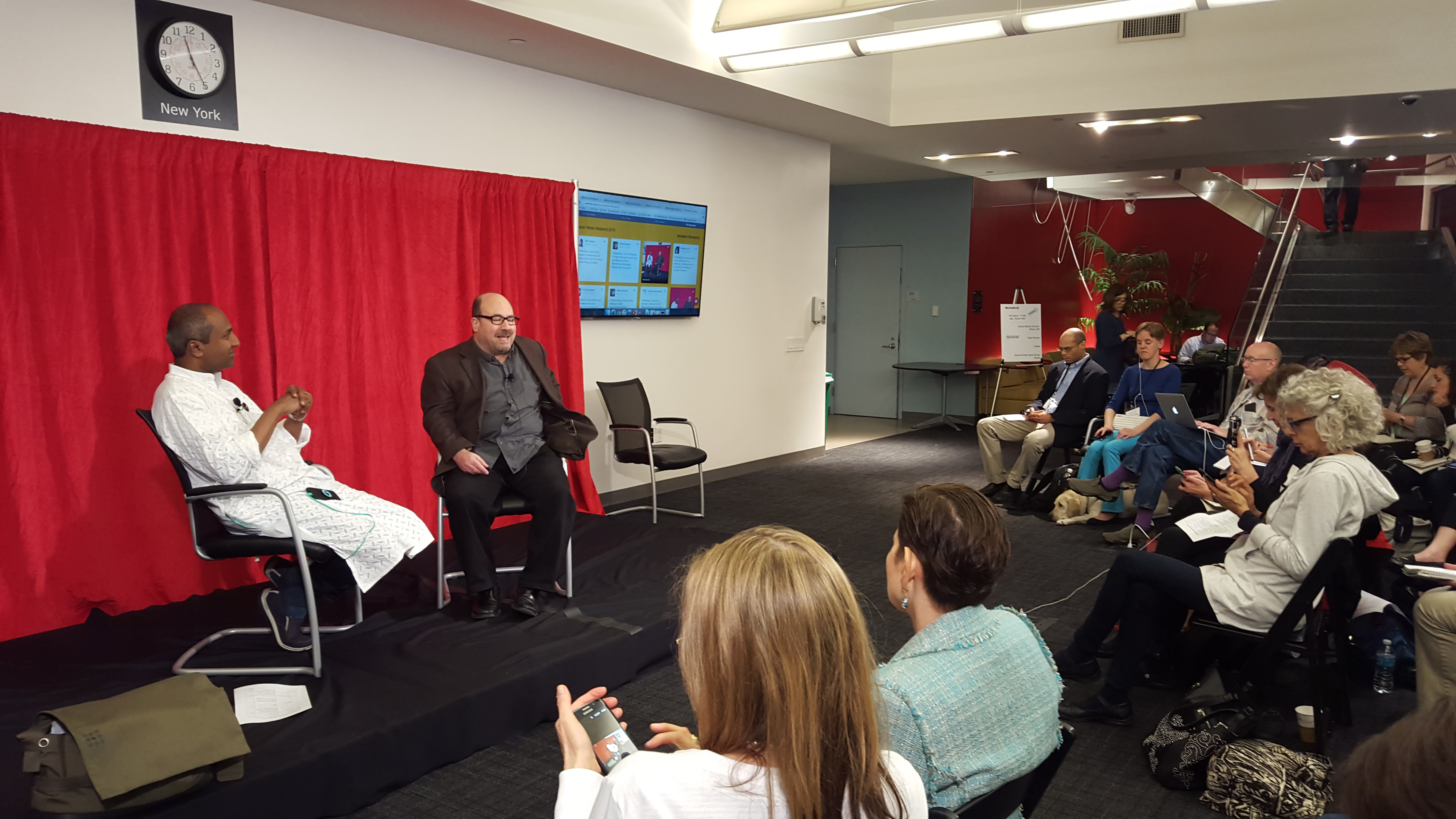 Sree Sreenivasan interviews Craig Newmark at Social Media Weekend 2016